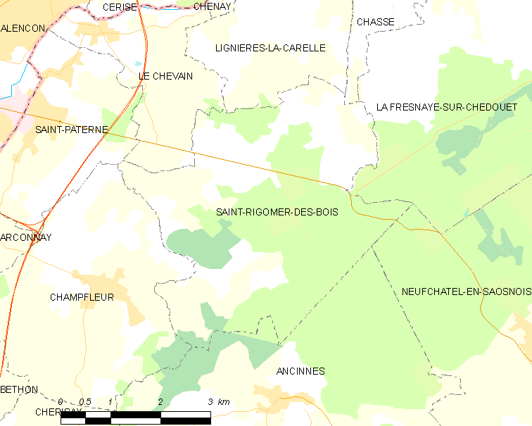 Map of French municipality